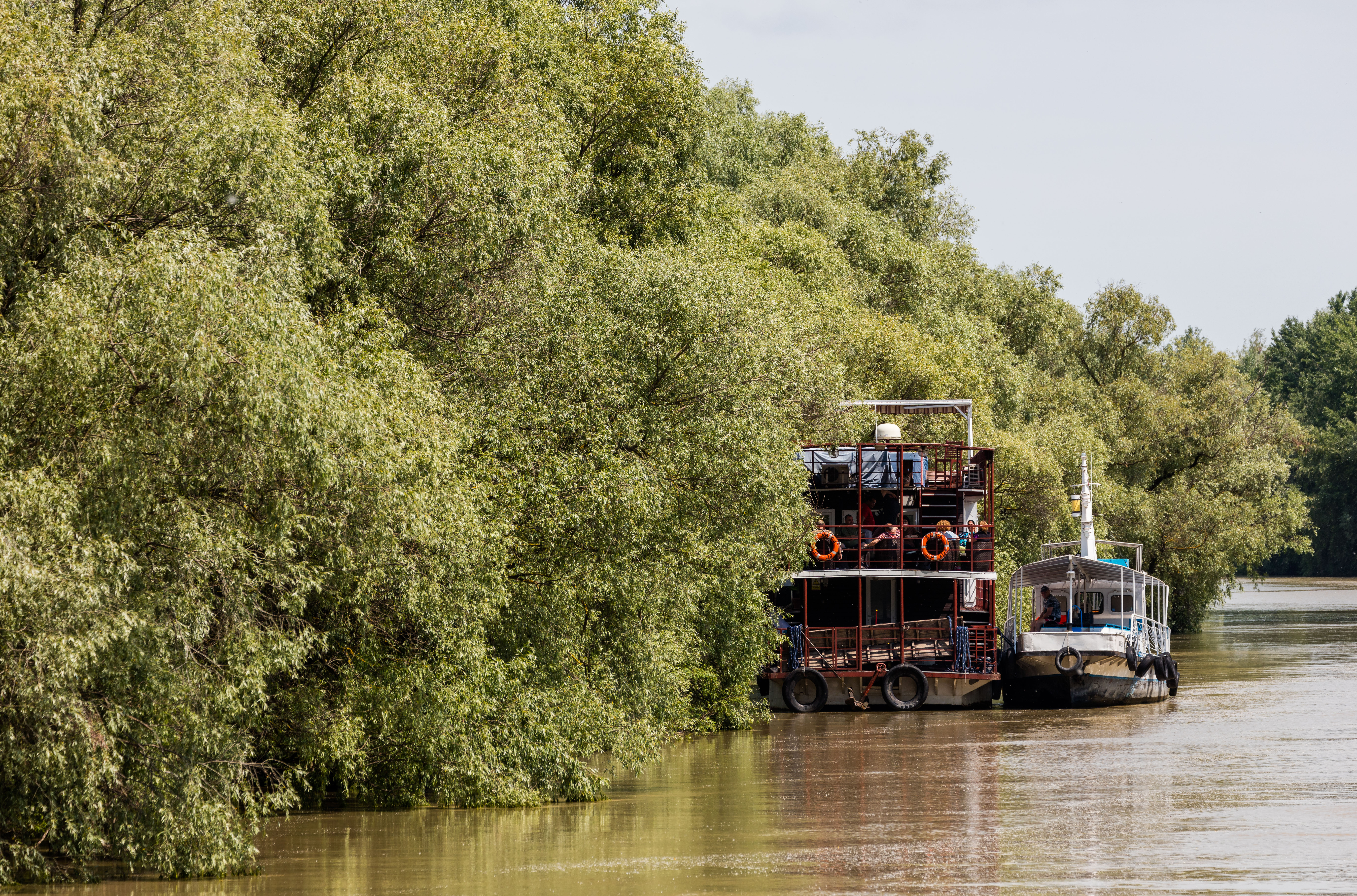 Danube Delta, Romania